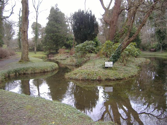 Silverdale Glen, Ballasalla, Isle of Man.